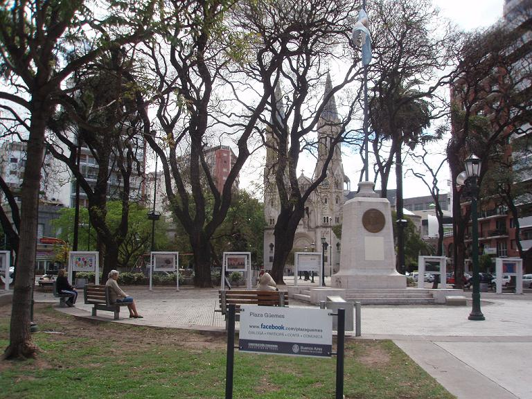 Picture of Plaza Güemes, Villa Freud, Palermo, Buenos Aires